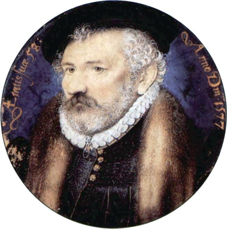 Portrait of Richard Hilliard, the artist's father, a goldsmith.